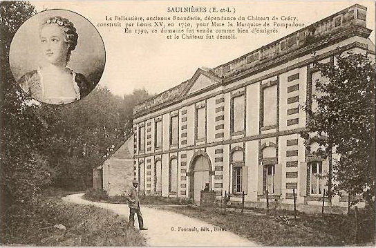 Old postcard from Bellassière Mill, the field dependence of Crécy, owned by Madame de Pompadour